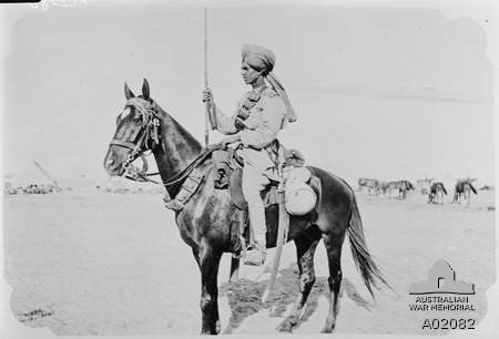 Photo of a Mysore Lancer